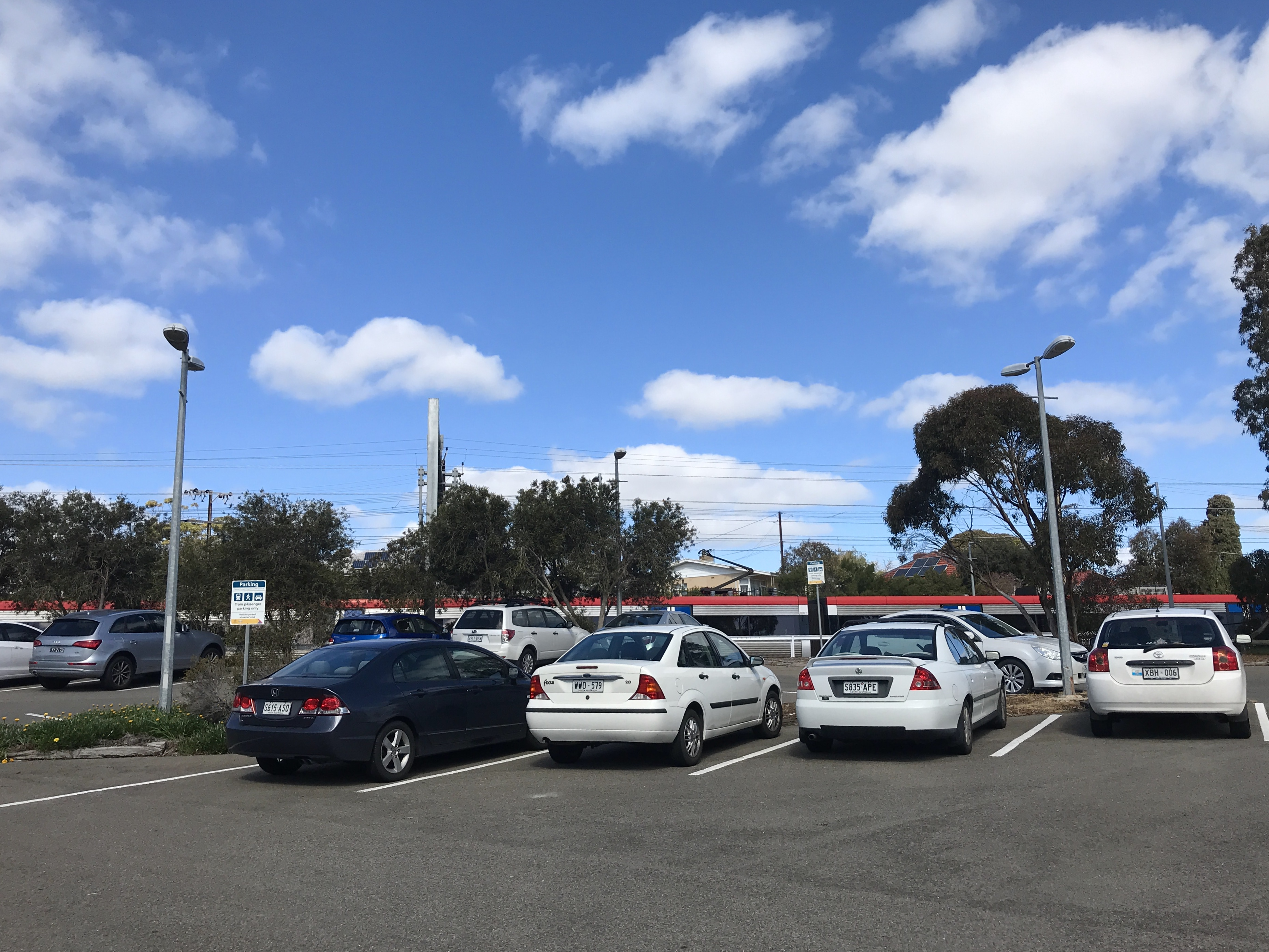 Cars parked at Marino Rocks train station.